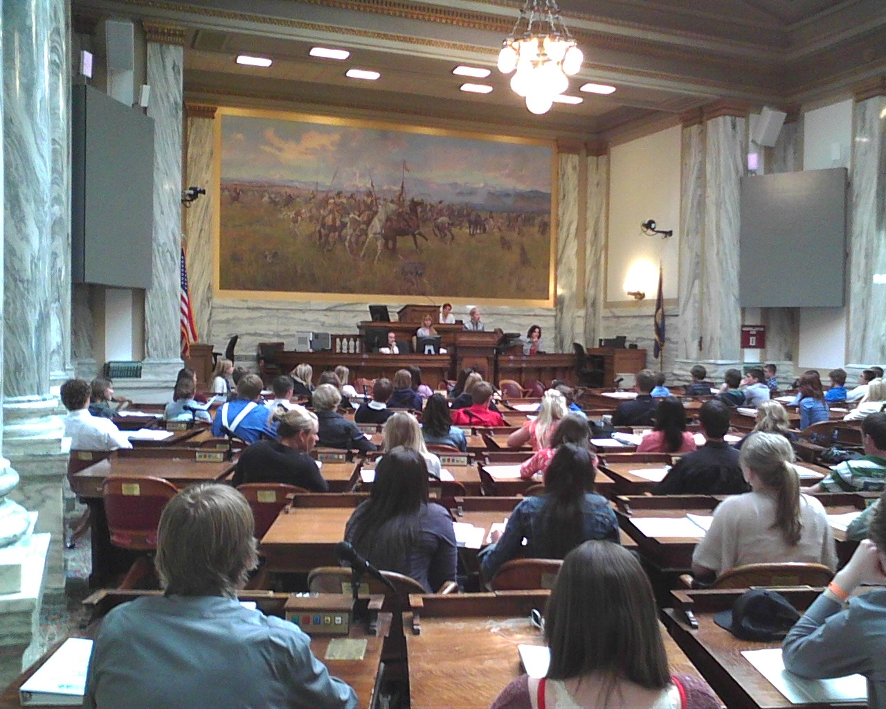 C.M. Russell, Lewis and Clark Meet the Flathead Indians at Ross' Hole 1912. Painting as viewed in Montana State Capitol, House of Representatives' Chamber. Image taken during Montana YMCA Youth and Government program, 2012